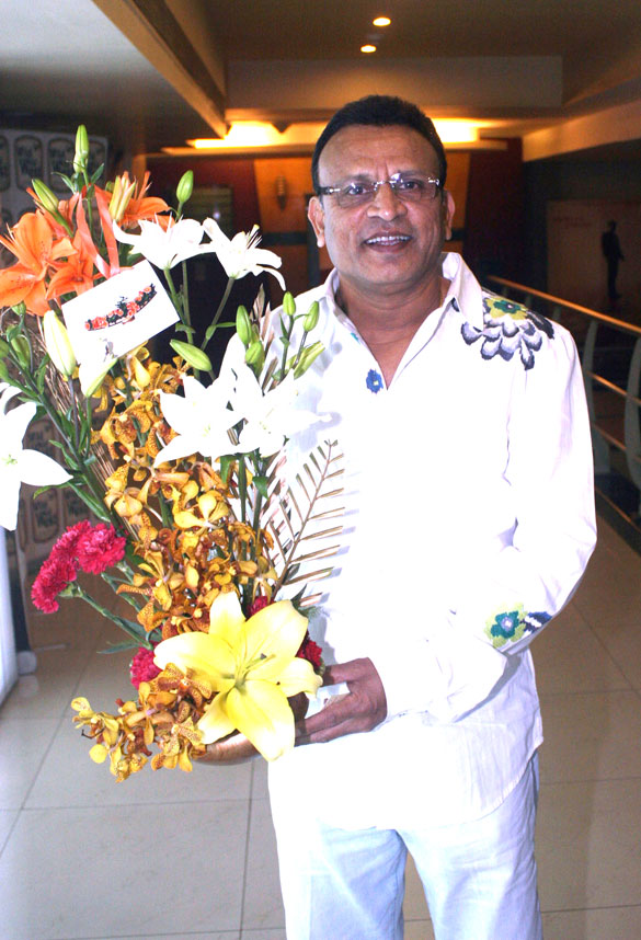 Annu Kapoor